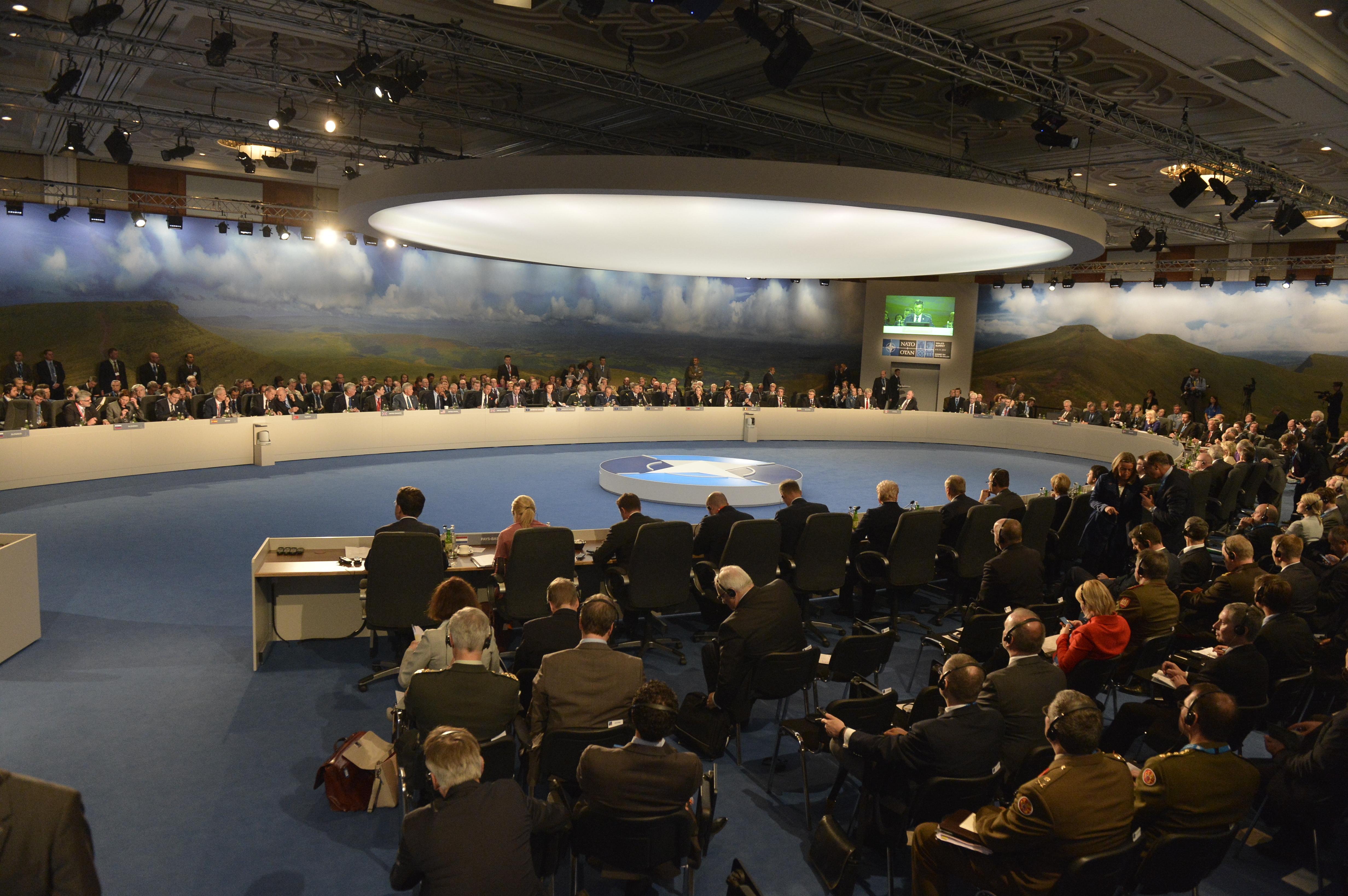 President Barack Obama and Secretary of Defense Chuck Hagel look on as United Kingdom's Prime Minister David Cameron makes opening remarks during a meeting of the North Atlantic Council with heads of state during the NATO summit held in Newport, Wales, September 5, 2014. DoD Photo by Glenn Fawcett (Released)